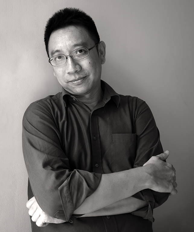 Author, editor and poet Alvin Pang, in 2018.